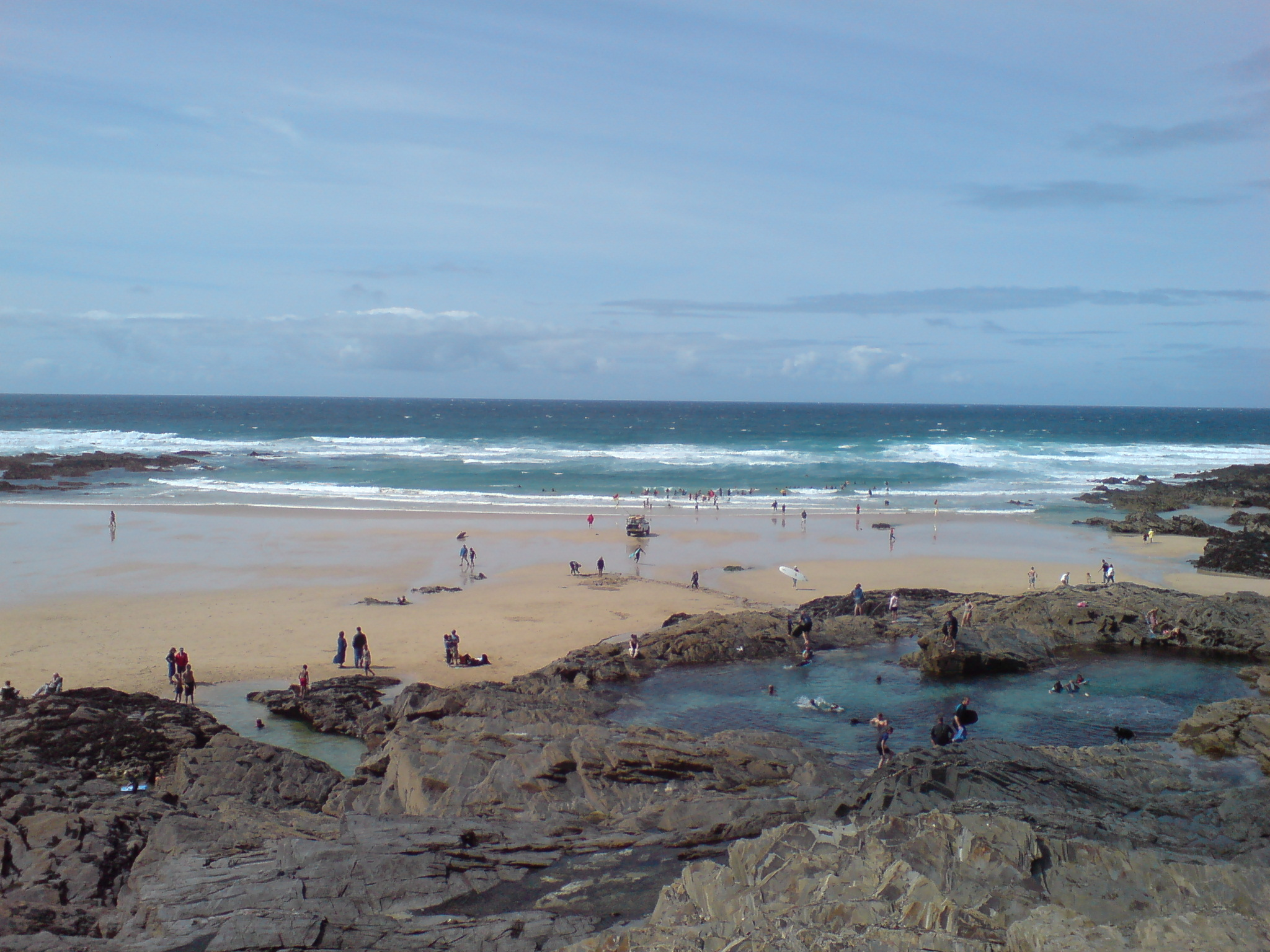 I am the author. Jamsta 21:23, 12 September 2006 (UTC)